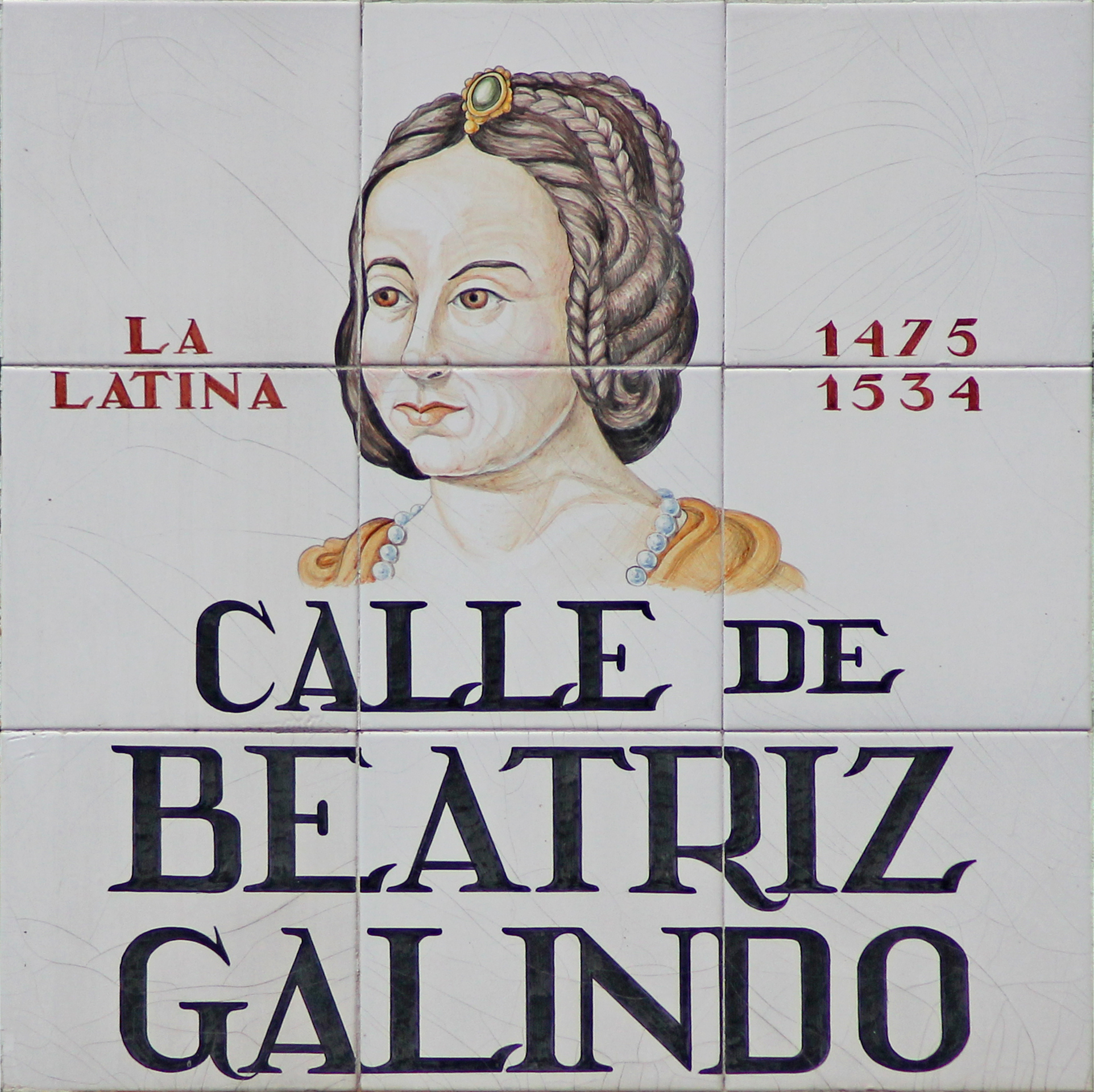 Sign of Calle de Beatriz Galindo (street) in Madrid (Spain).